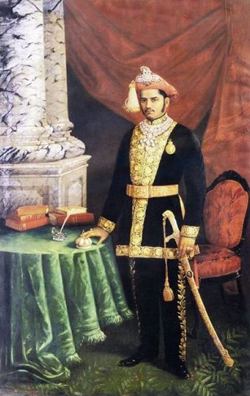 Portrait of Maharaja of Baroda Sayajirao Gaekwad III.